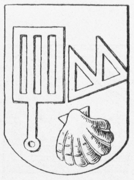 Coat of arms of Øster Herred (Hundred) on Bornholm, a former administrative subdivision of Denmark, 1584 version. Illustration from the article Om danske By- og Herredsvaaben written by Anders Thiset and published in Tidsskrift for Kunstindustri 1893-1894.